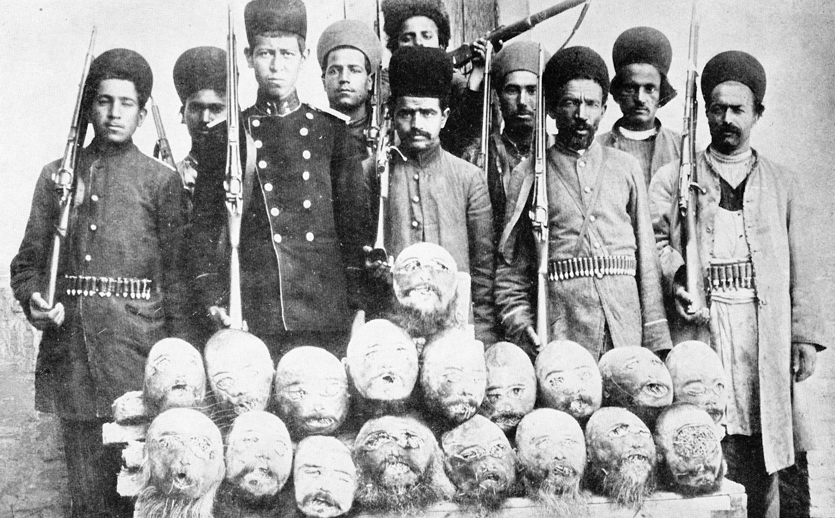 Heads of Turkoman chiefs, stuffed with straw and brought to Tehran, 1911